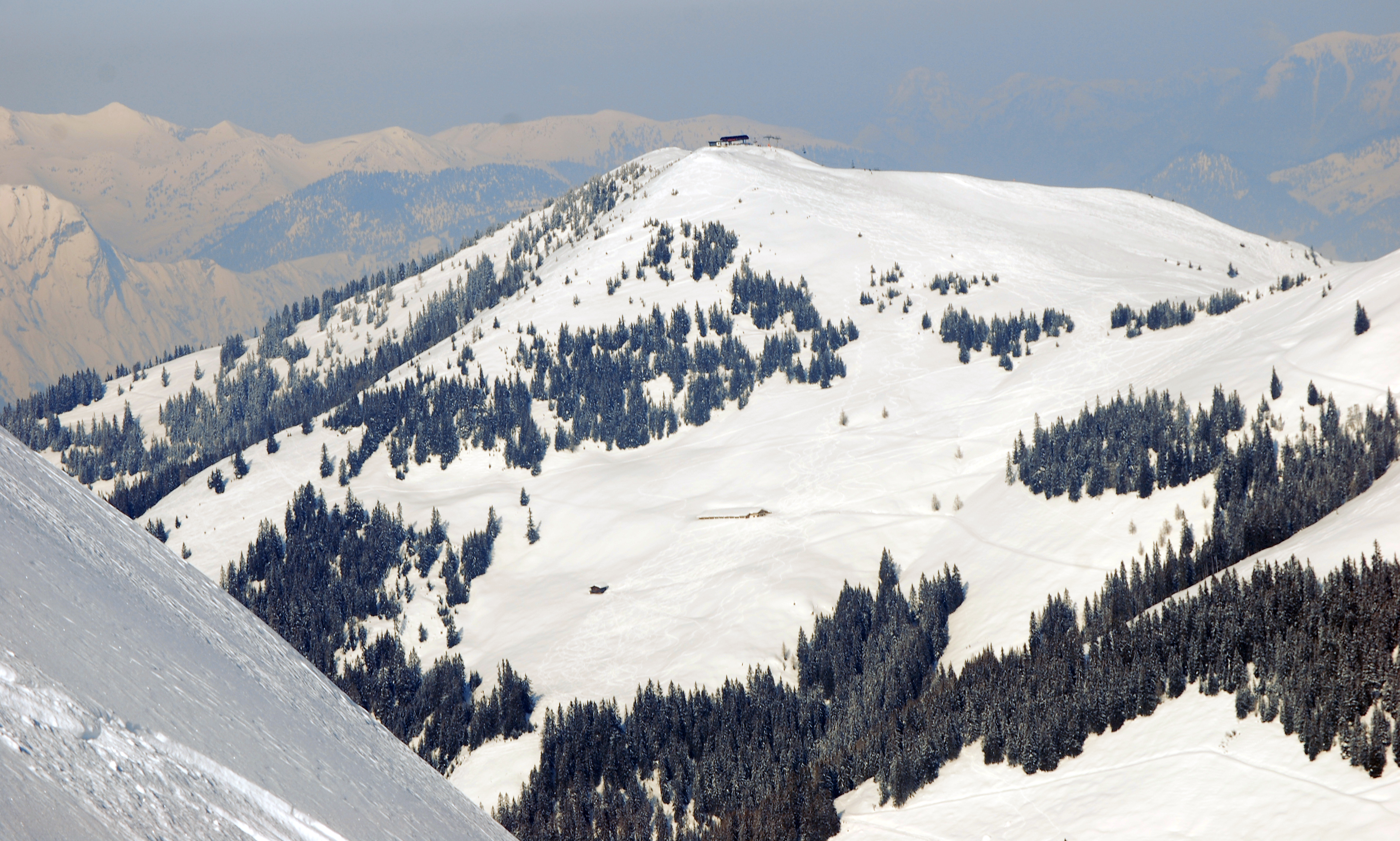 Schatzberg from S (Mareitkopf)